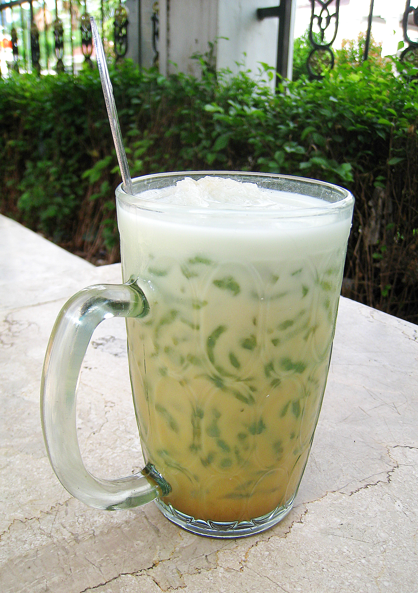 A Glass of Cendol at a bus stop in front of National Museum of Indonesia, Jakarta. Cendol is Indonesian traditional sweet ice-beverage made from green jelly, coconut milk, shredded ice, and coconut sugar.